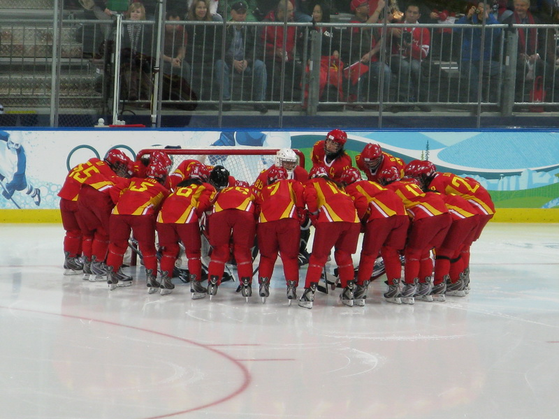 The China women's national ice hockey team huddles before the game against Russia during the 2010 Winter Olympics